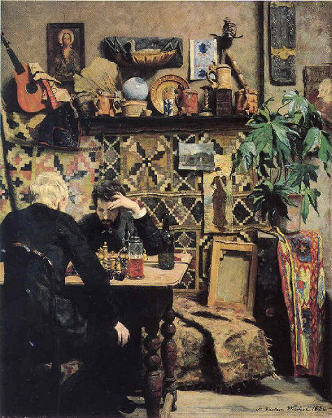 In the picture: fellow artists Oscar Lærum (left) and Harald Bertrand.